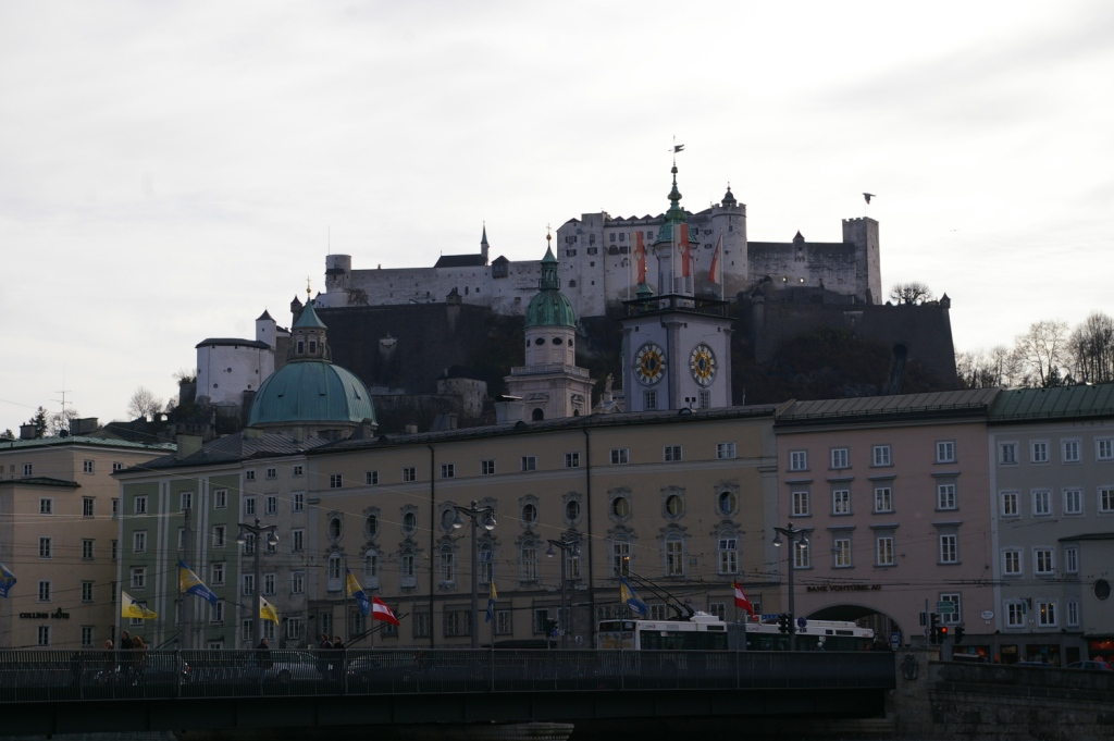 Salzburg